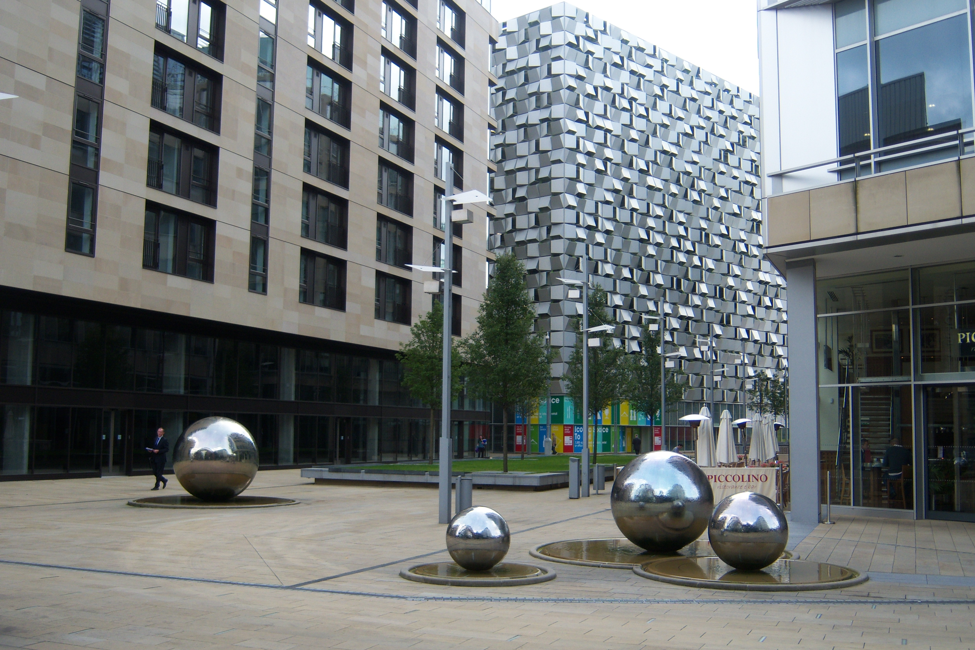 Millennium Square, Sheffield